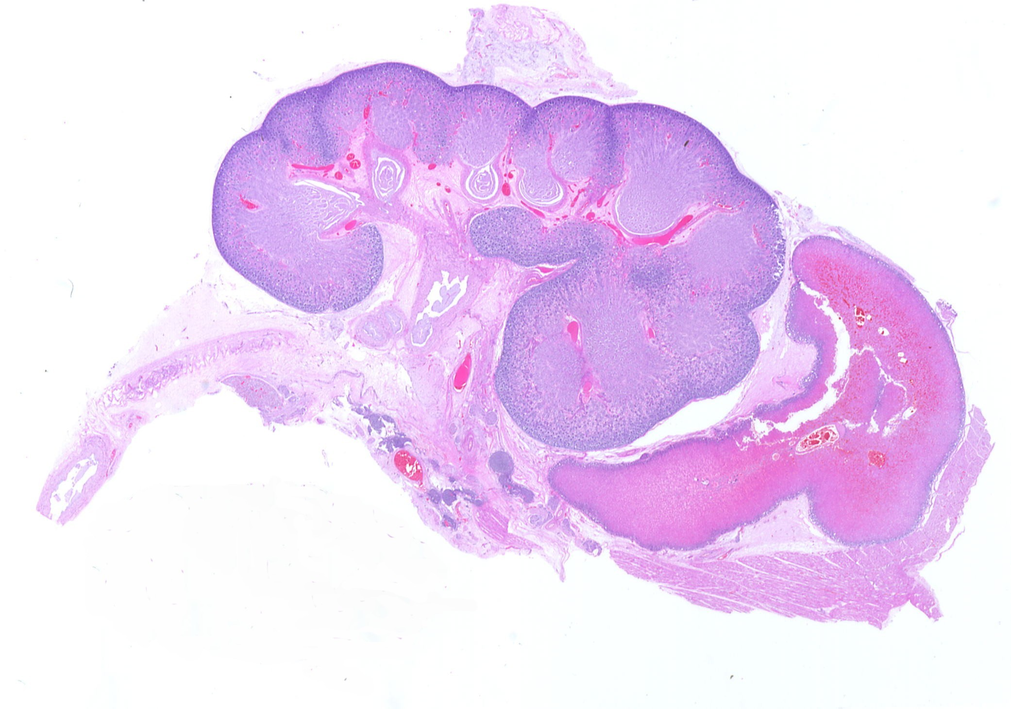 Whole slide from fetal tissue (23° week). Kidney, adrenal gland, proximal urether are visible. Scanned slide (Epson Perfection 1670), H&E